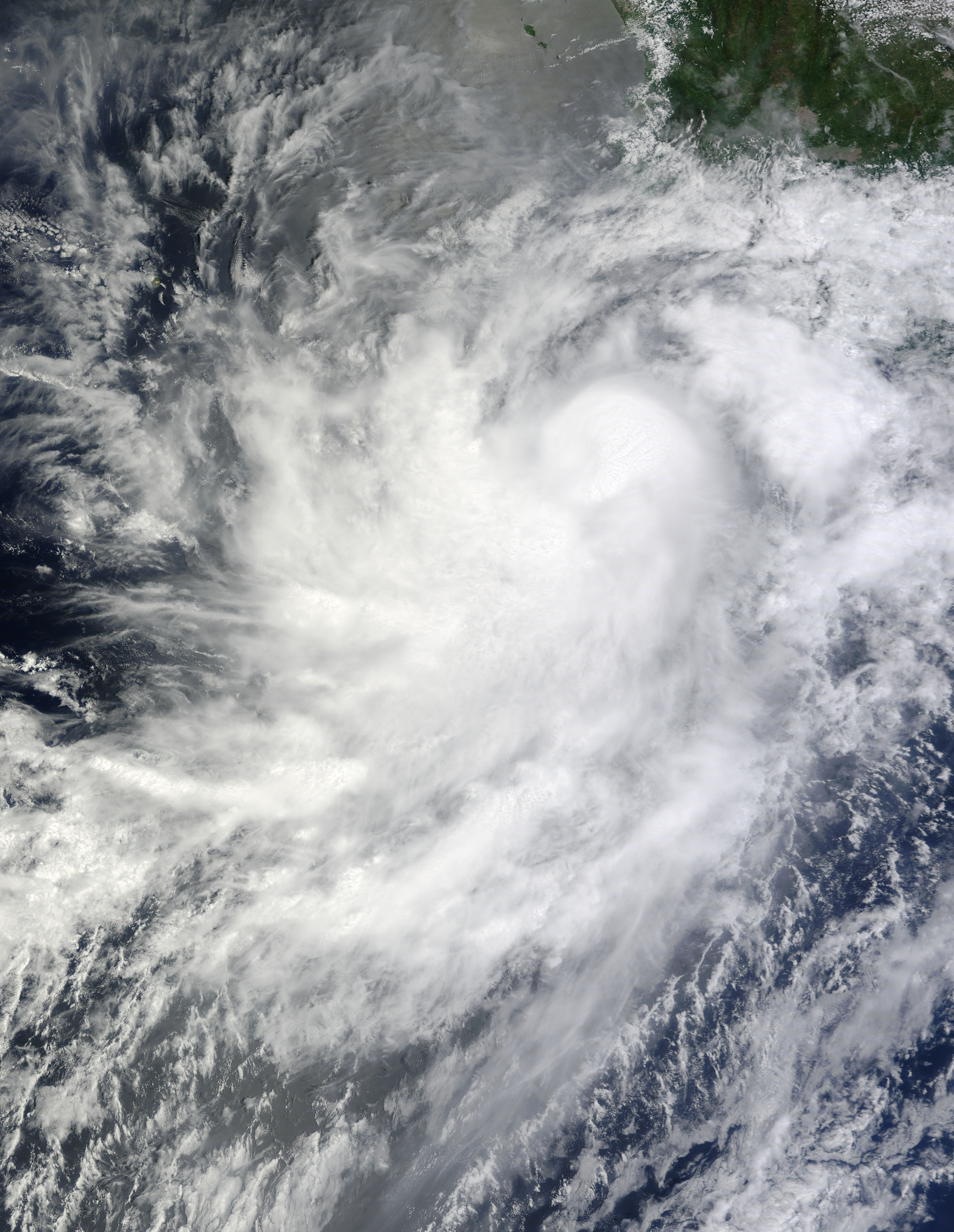 Hurricane Frank strengthening off the Pacific coast of Mexico on August 25, 2010